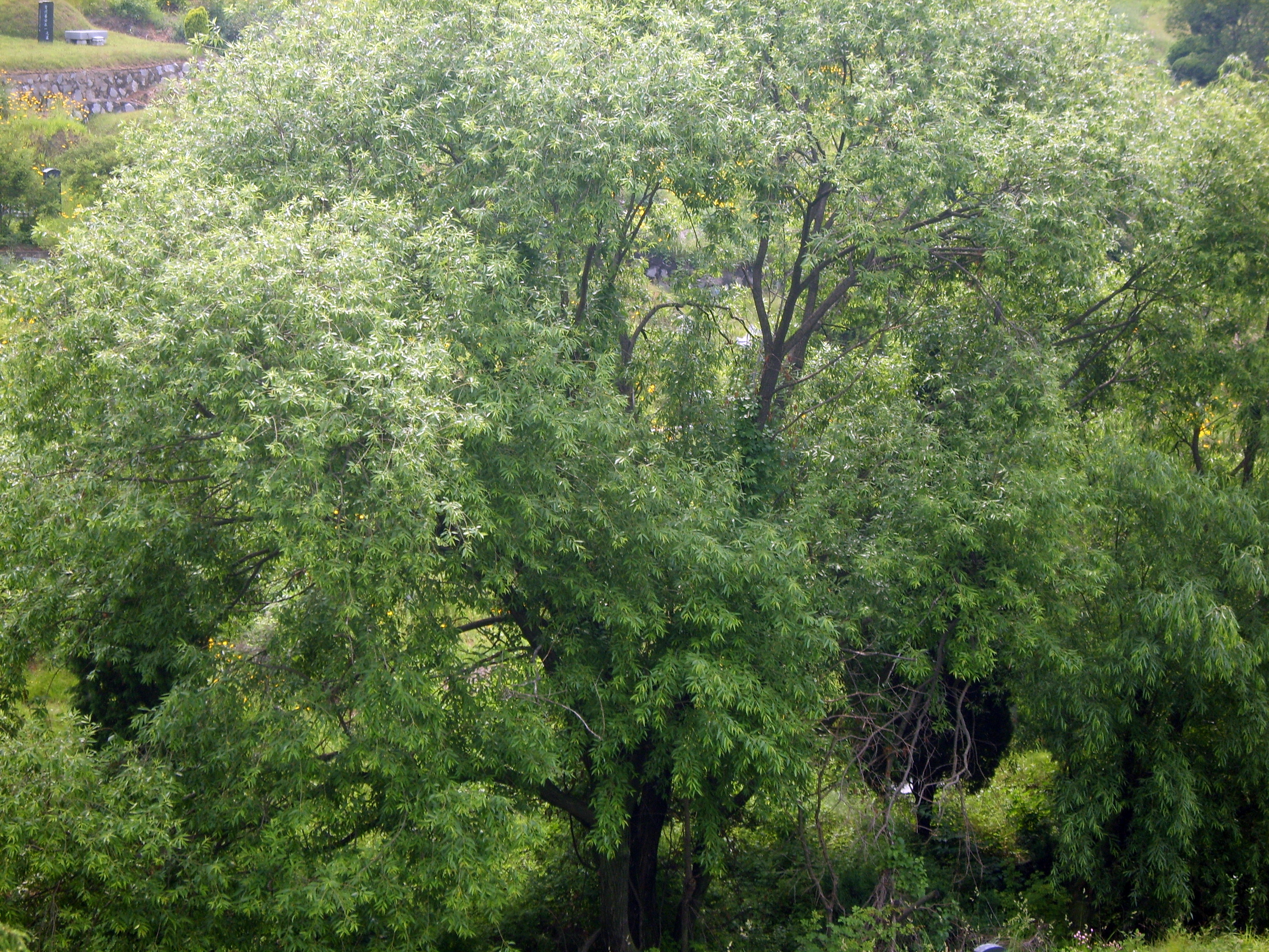 Salix koreensis in Bupyung, Korea